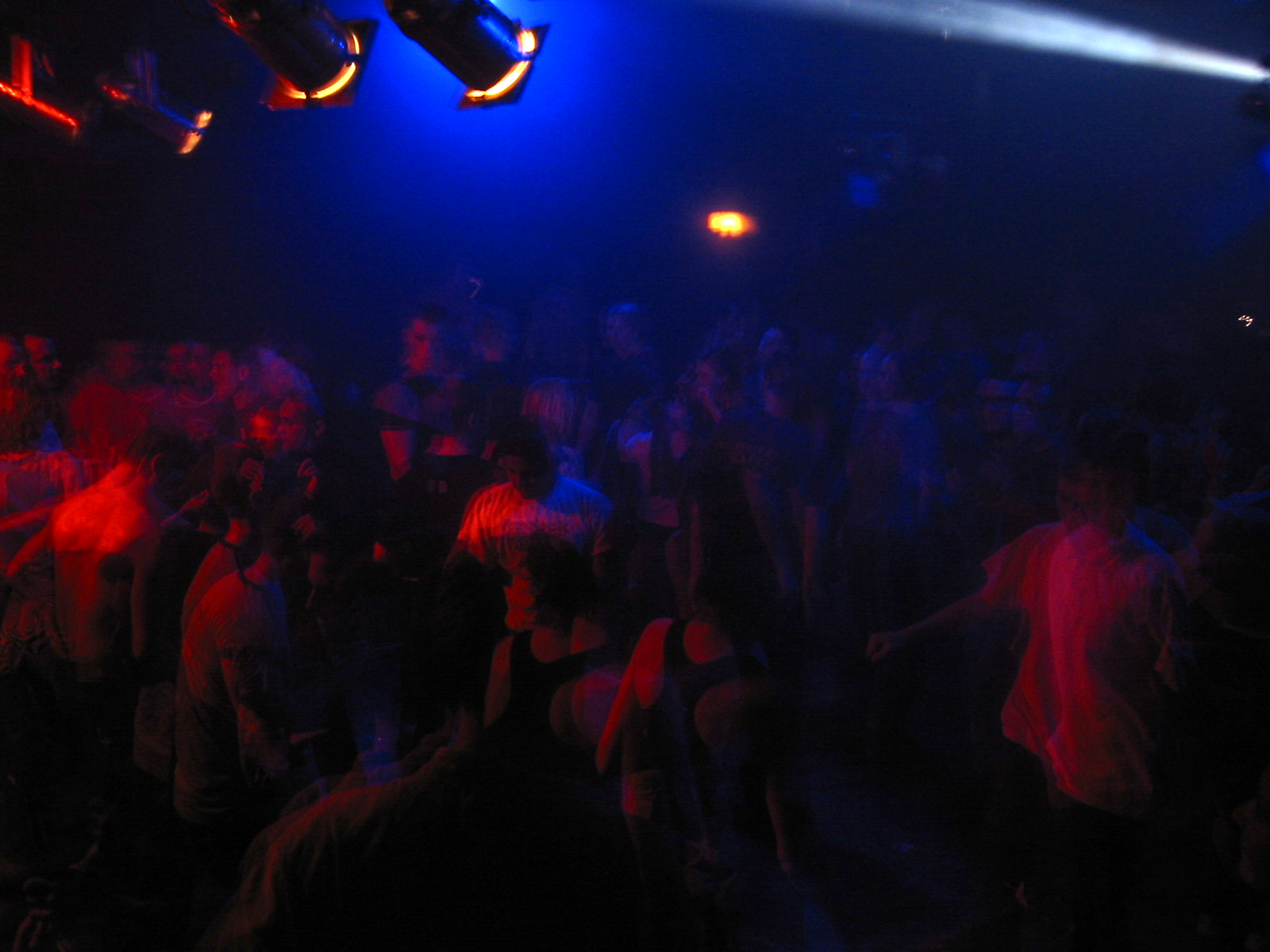 photo by User:Nicor Date: 2002